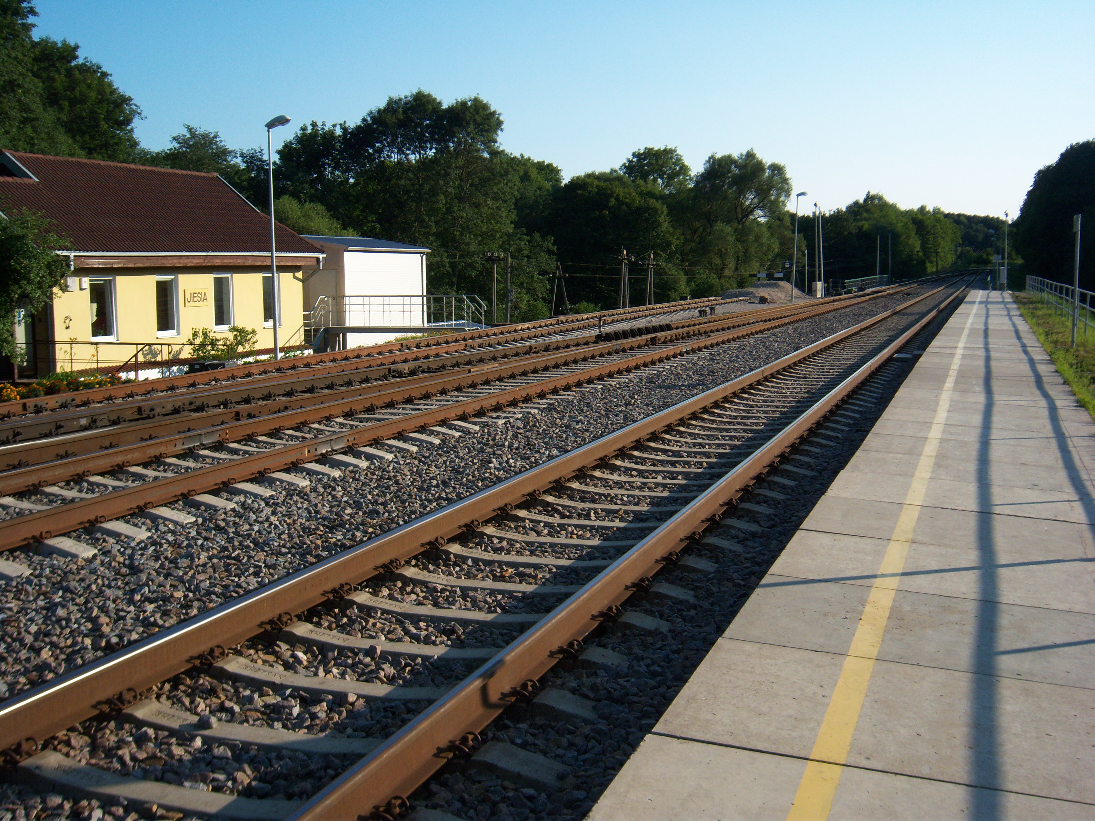 Jiesios train stop, Kaunas. Lithuania